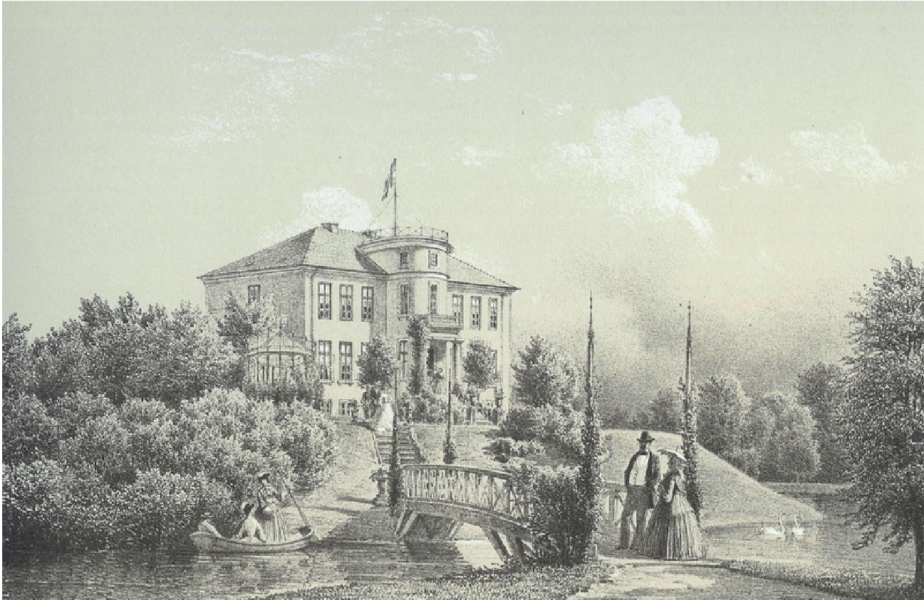 Egholm in Lejre Municipality, Denmark